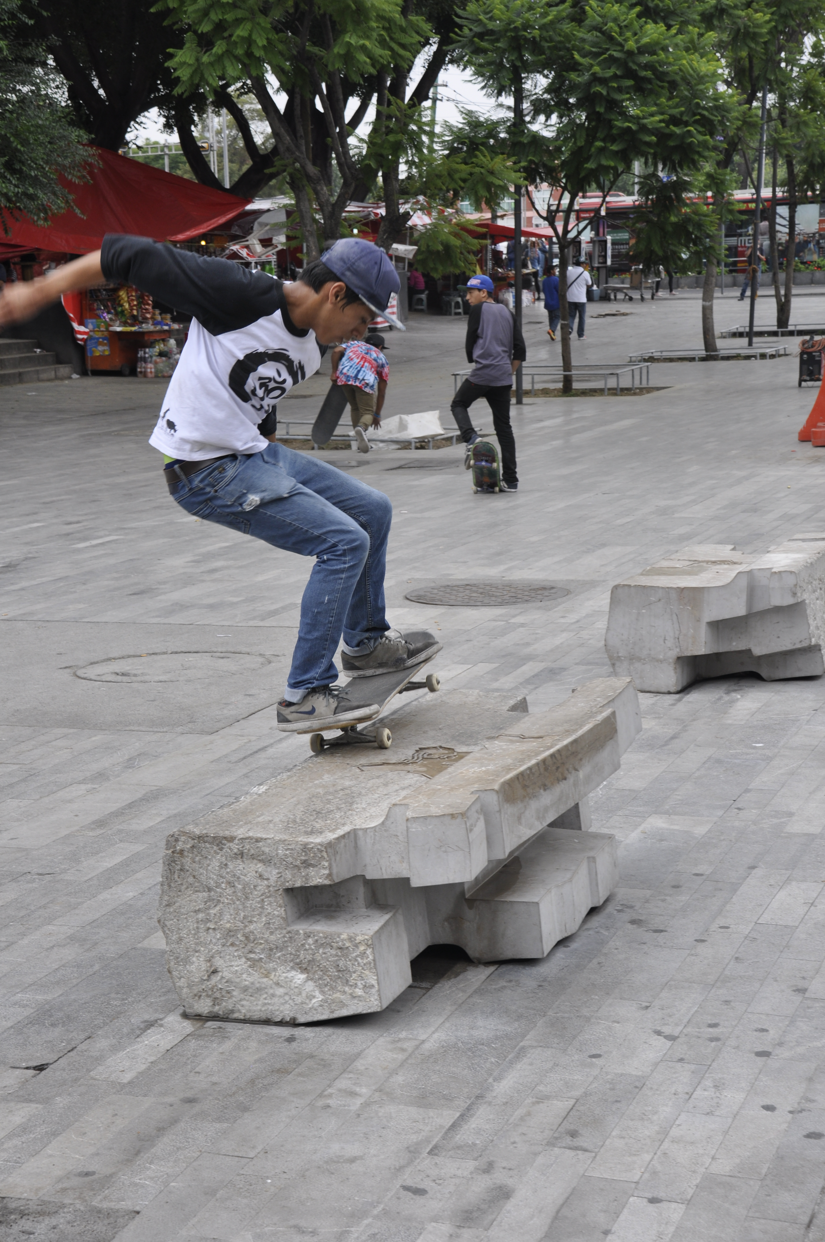 Skateboarding at Calle Dr Mora, just west of Alameda Central in Mexico City.